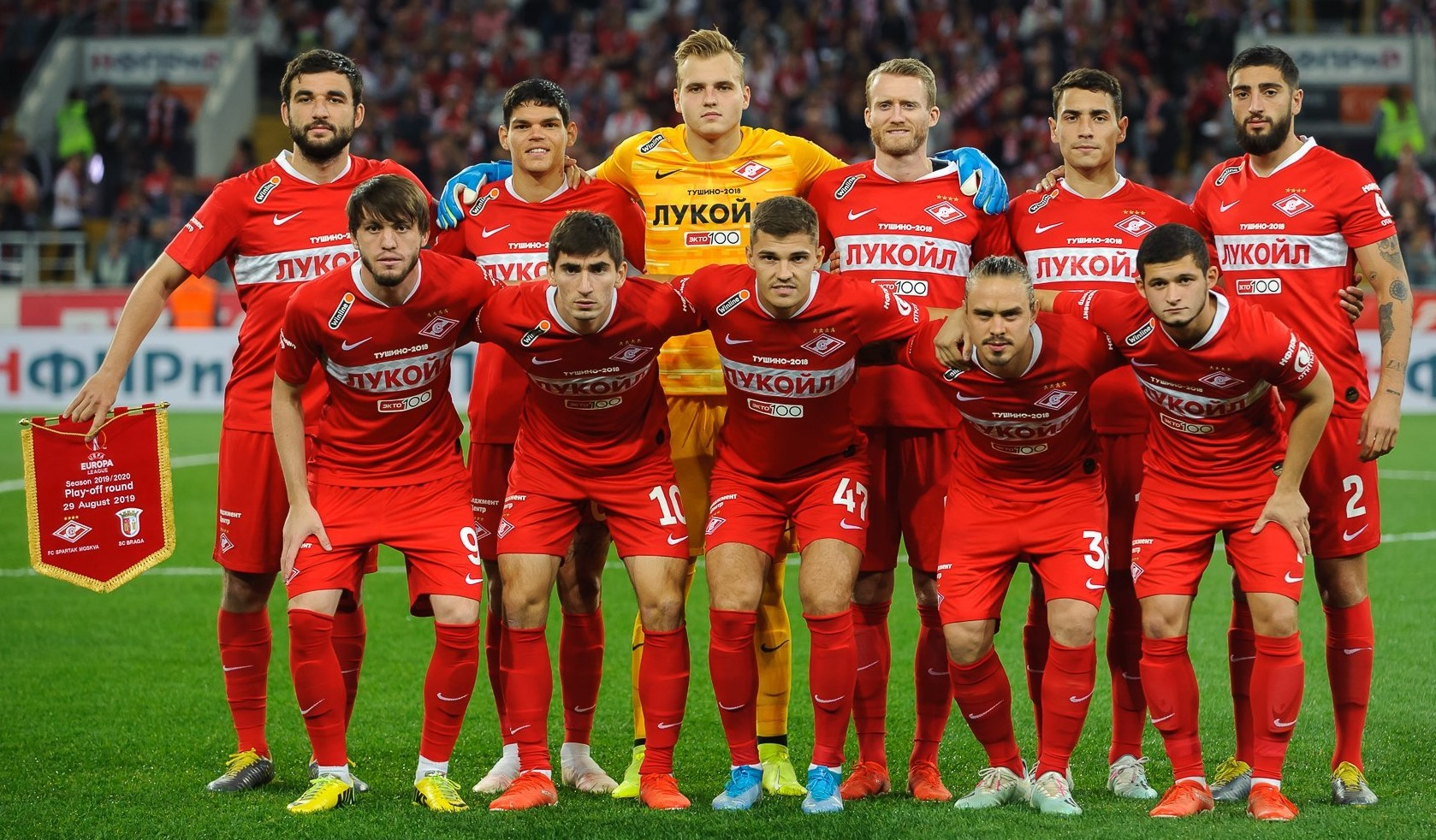 FC Spartak Moscow players in a game against SC Braga